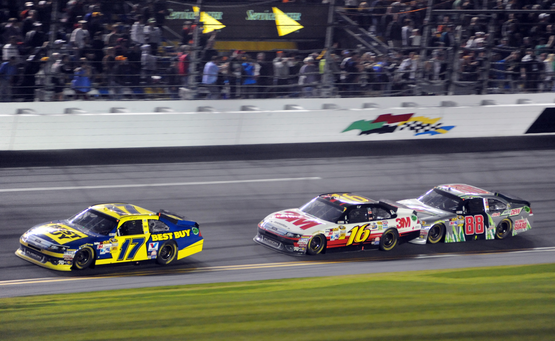 Matt Kenseth leads the field in the 2012 Daytona 500.